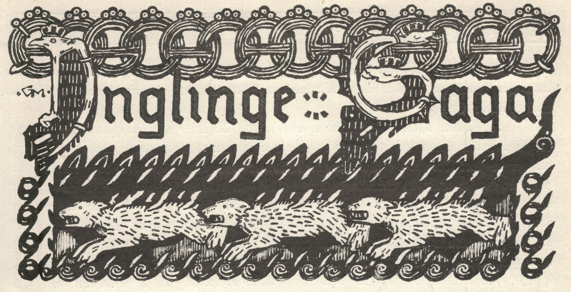 Gerhard Munthe: Illustration for Ynglingesaga, Heimskringla 1899-edition. Tittelfrise.